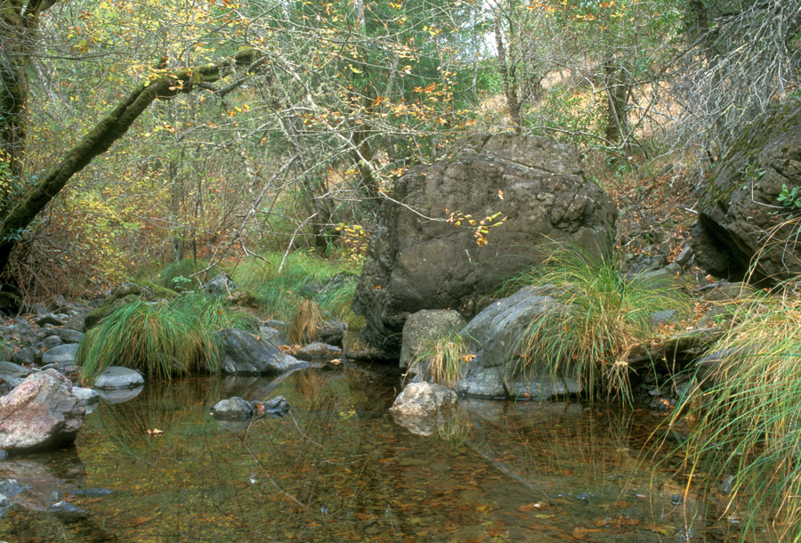 San Anselmo Creek running through the Elliott Preserve — in Fairfax, Marin County, California.